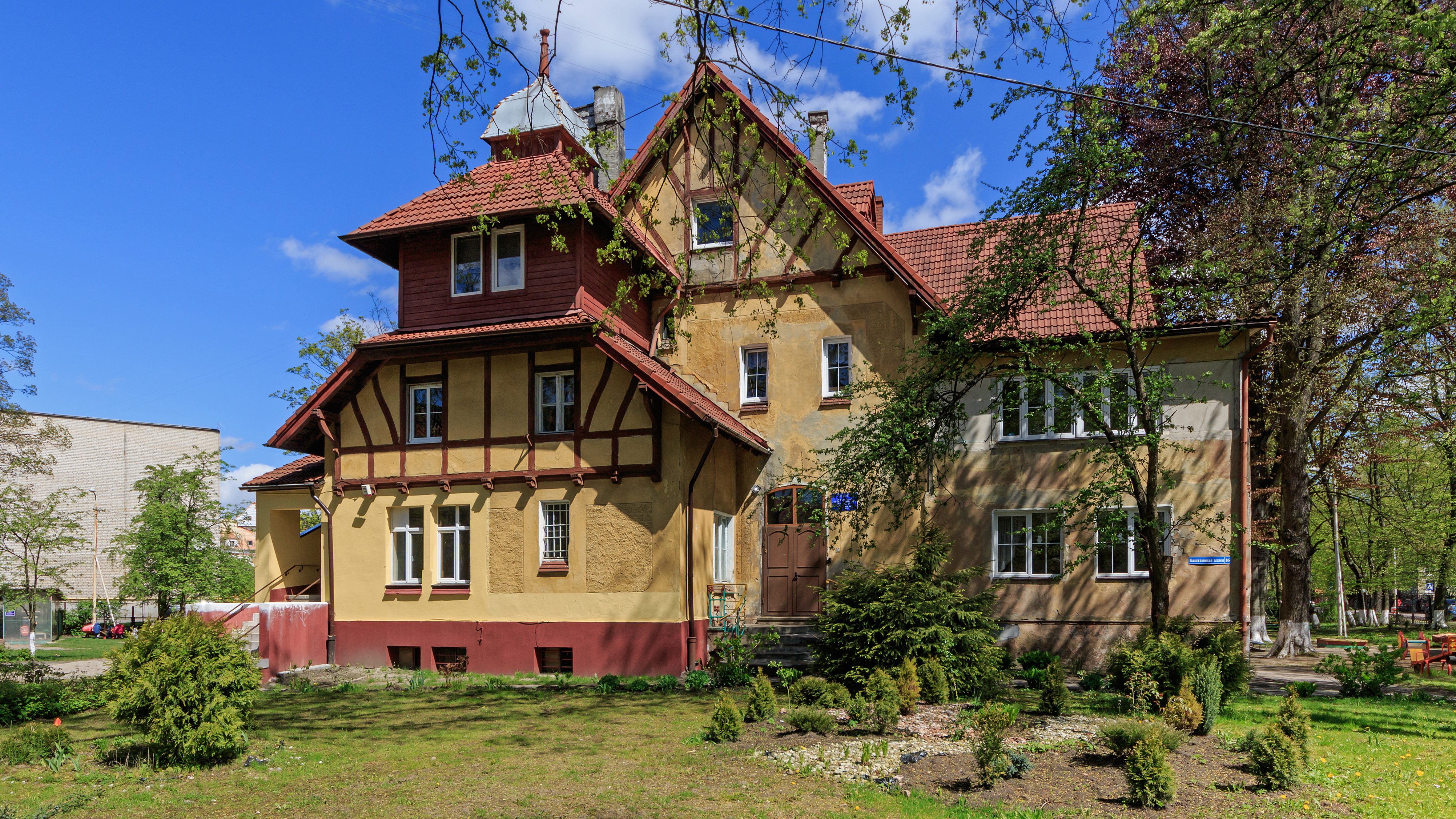 Historical villa in Amalienau in Kaliningrad formerly Königsberg, Kaliningrad Oblast (Russia).